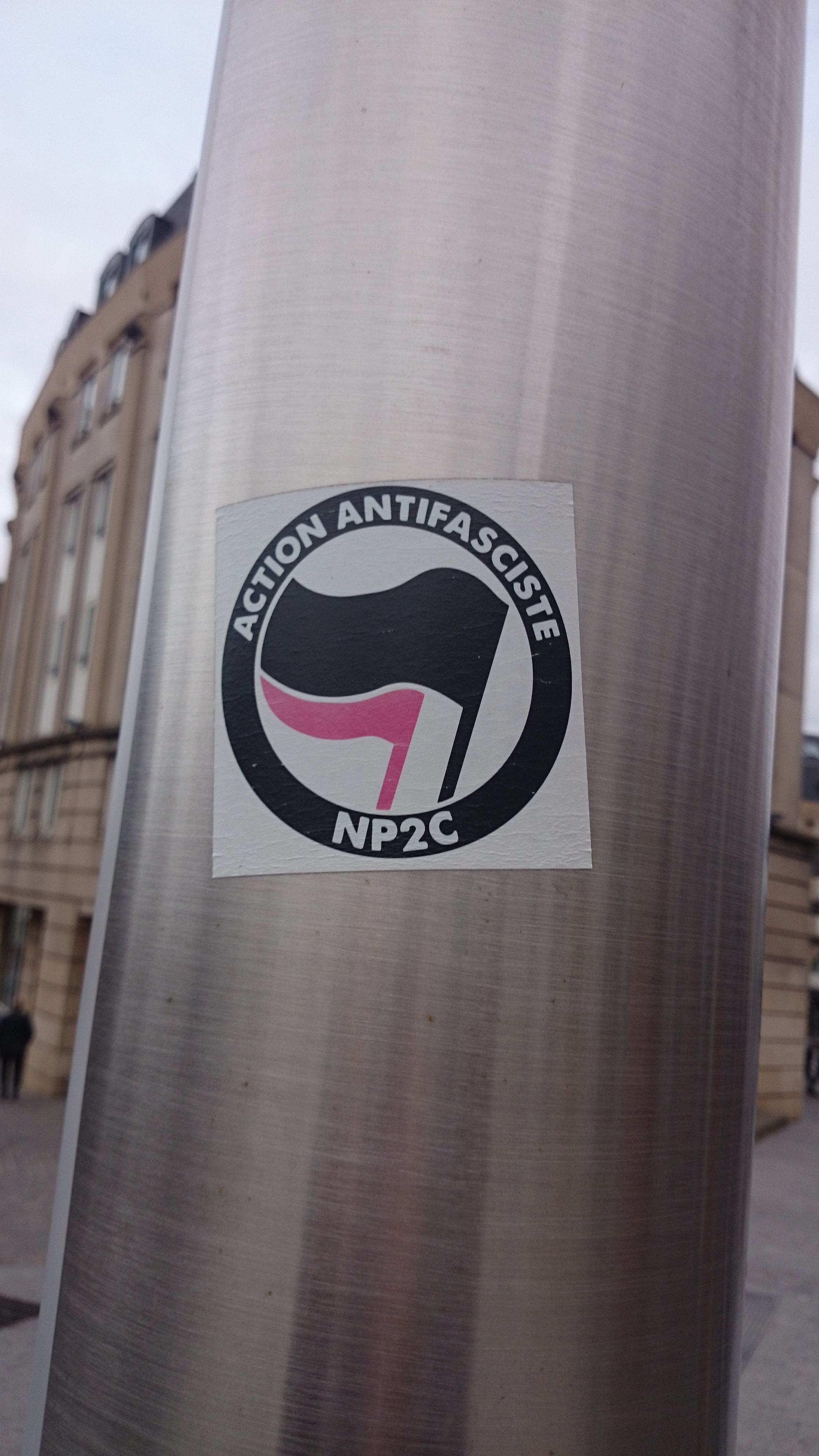 Sticker from the French antifascists (Action Antifasciste) section North and Pas-de-Calais, found in a street of Brussels.